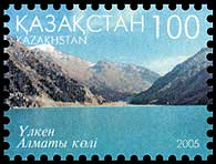 Stamp of Kazakhstan